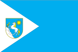 Flag of Chemerivtsi Raion, Khmelnytskyi Oblast, Ukraine.